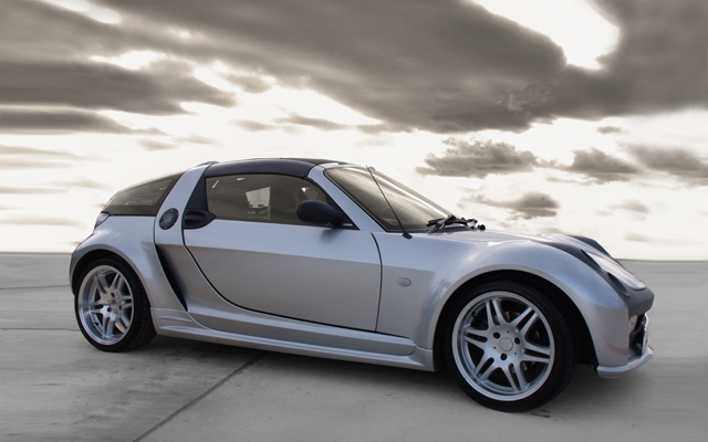 Smart Roadster Brabus 2005